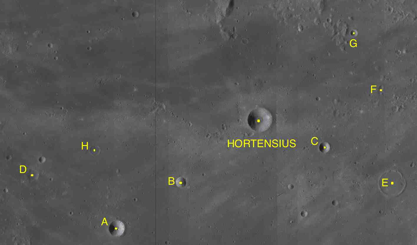 Parts of the charts LAC-57, LAC-58 used for the presentation